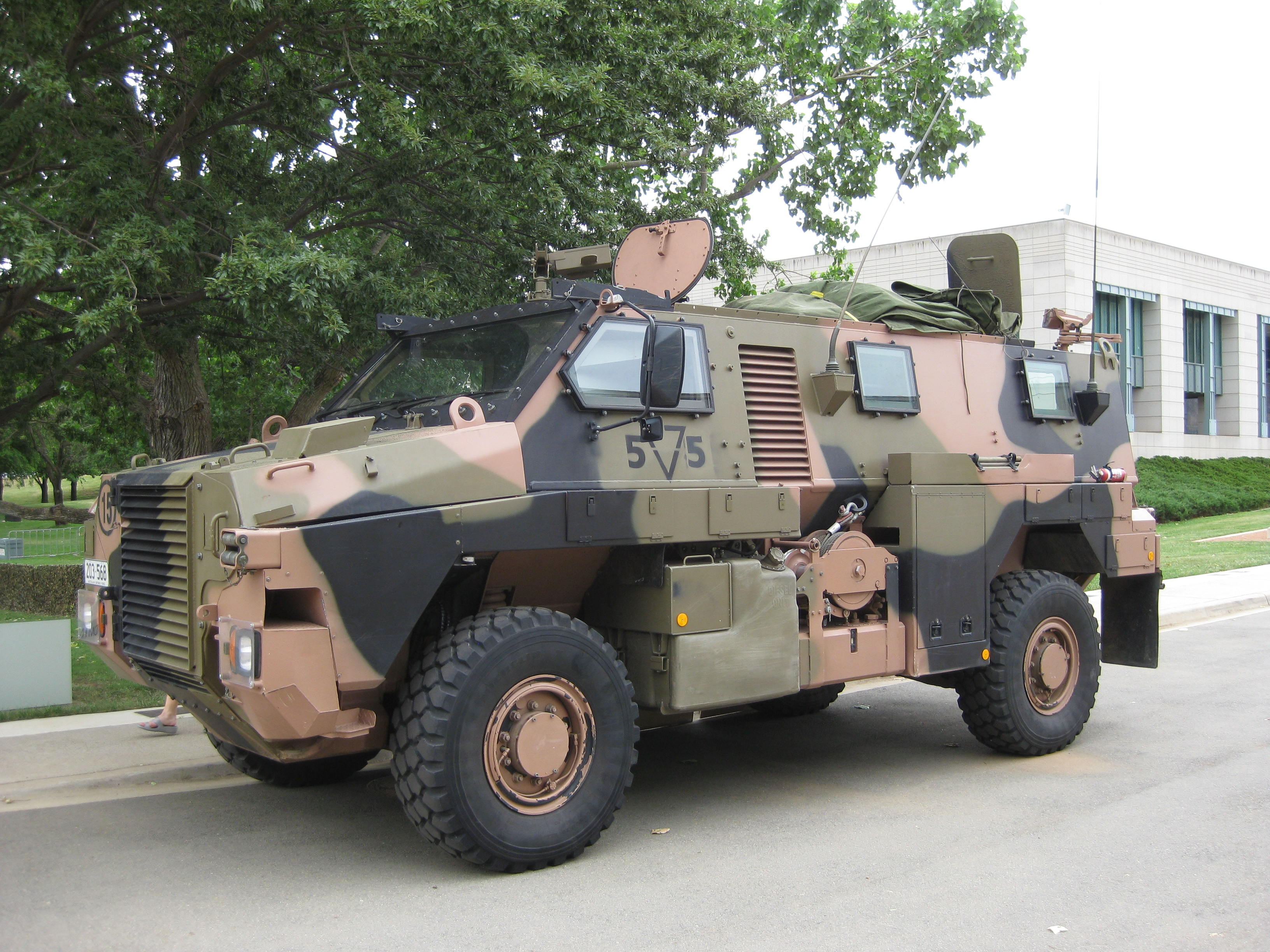 A Bushmaster Protected Mobility Vehicle on display next to the Australian War Memorial during the Operation Catalyst Welcome Home Parade.